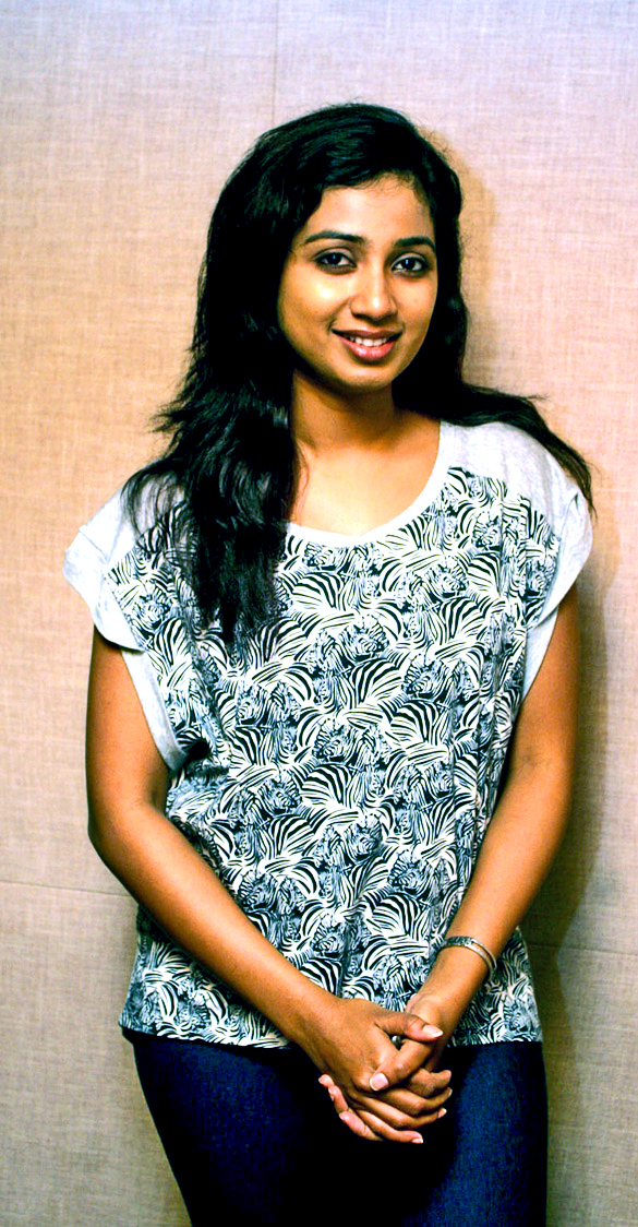 Shreya ghoshal dubbing a song for 'saali khushi'